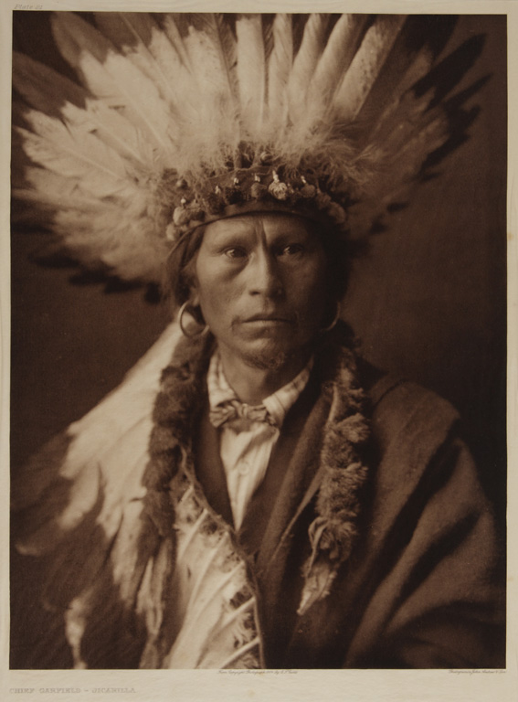 Chief Garfield - Jicarilla, 1904